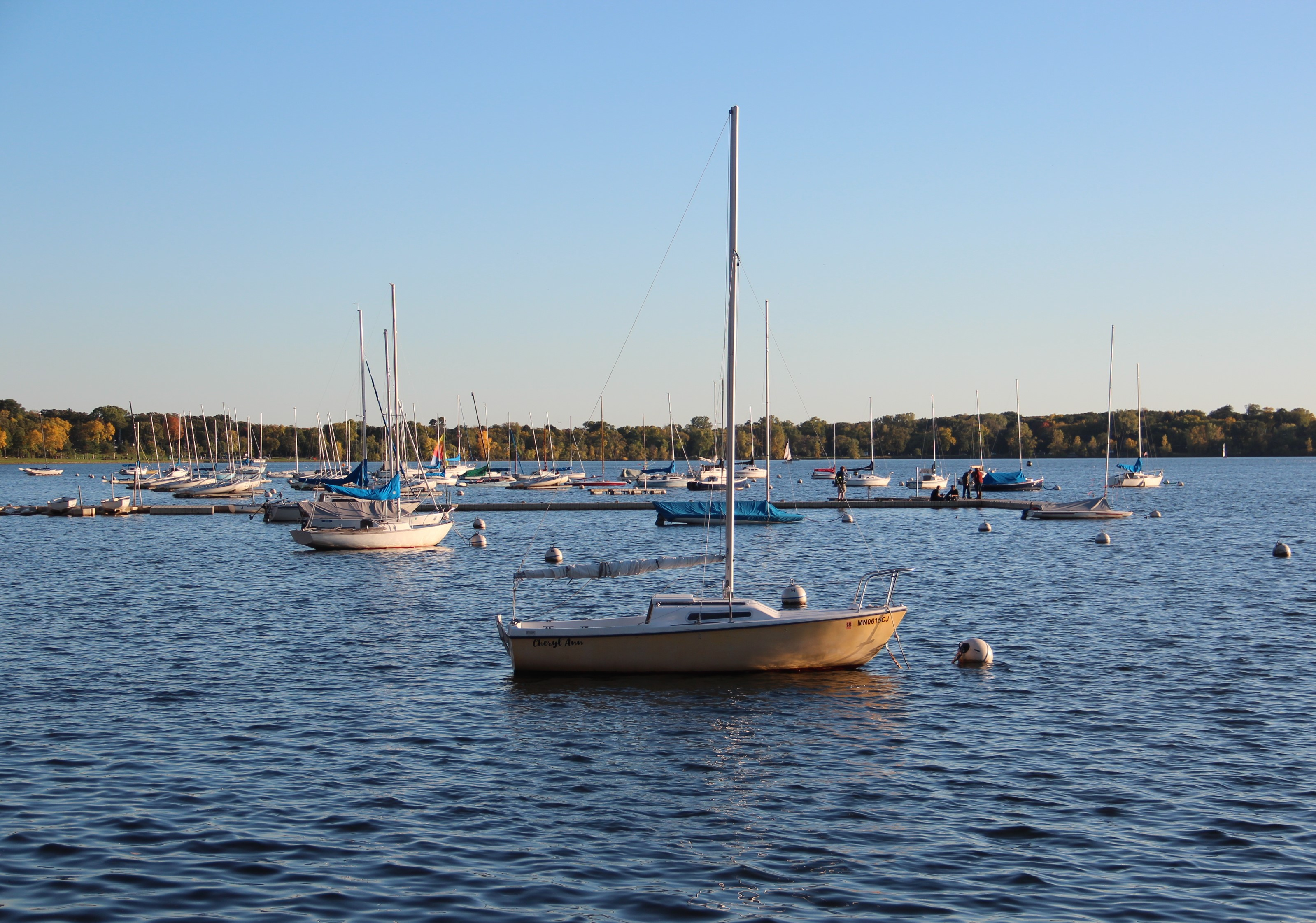 Boats on Lake Calhoun (Maka Ska) October 2017 (cropped)